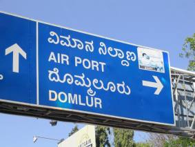 A signboard in Bangalore, India, written in both English and Kannada. It gives directions to Domlur and HAL Airport.